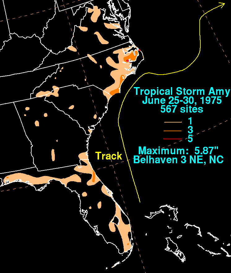 Storm total rainfall map of Tropical Storm Amy during June 1975.